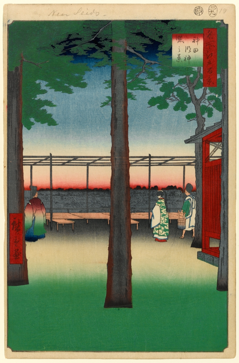 Part of the series One Hundred Famous Views of Edo, no. 010, part 1: Spring.